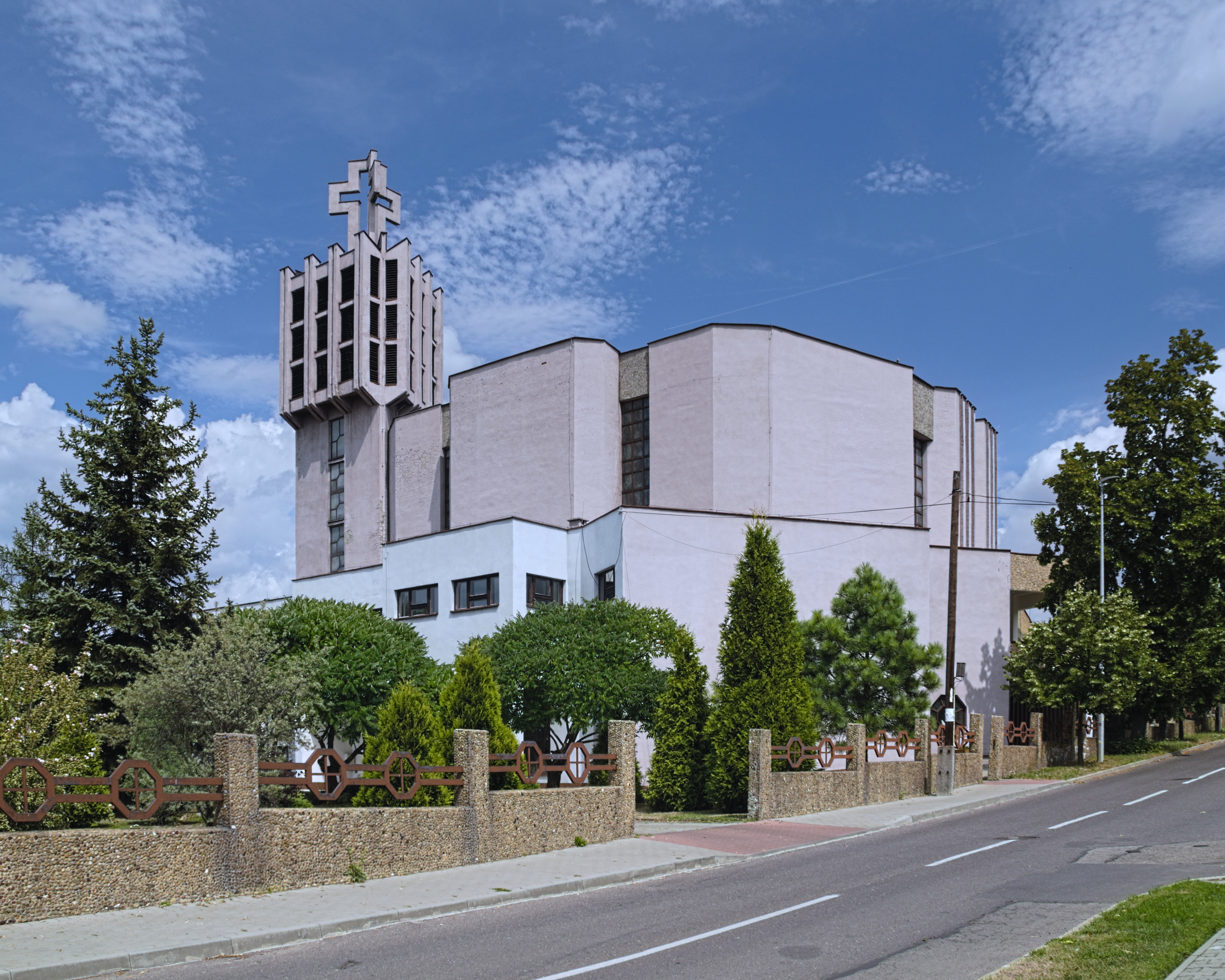 Assumption of the Blessed Virgin Mary church in Radzionków-Rojca